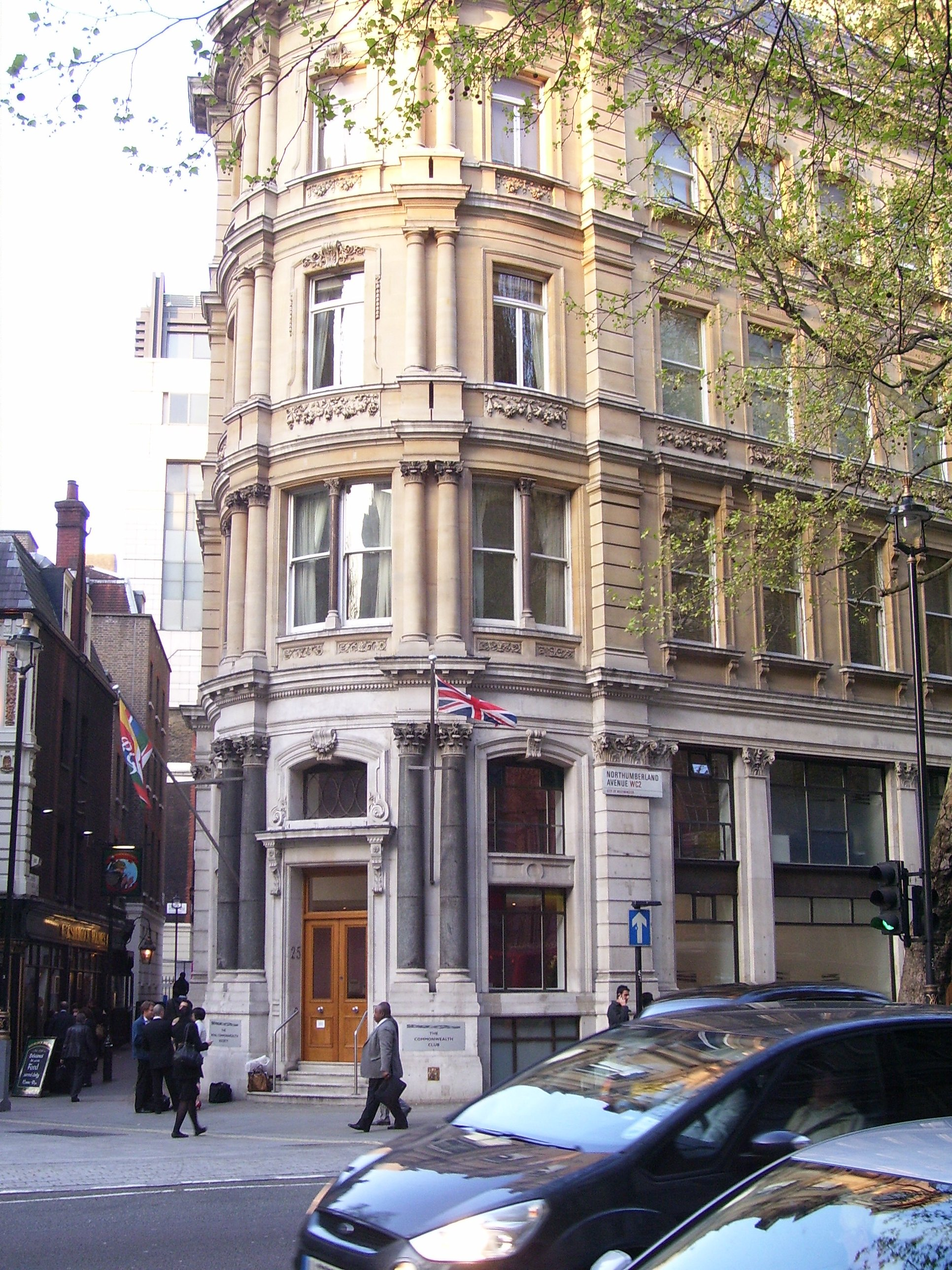 Commonwealth Club, London